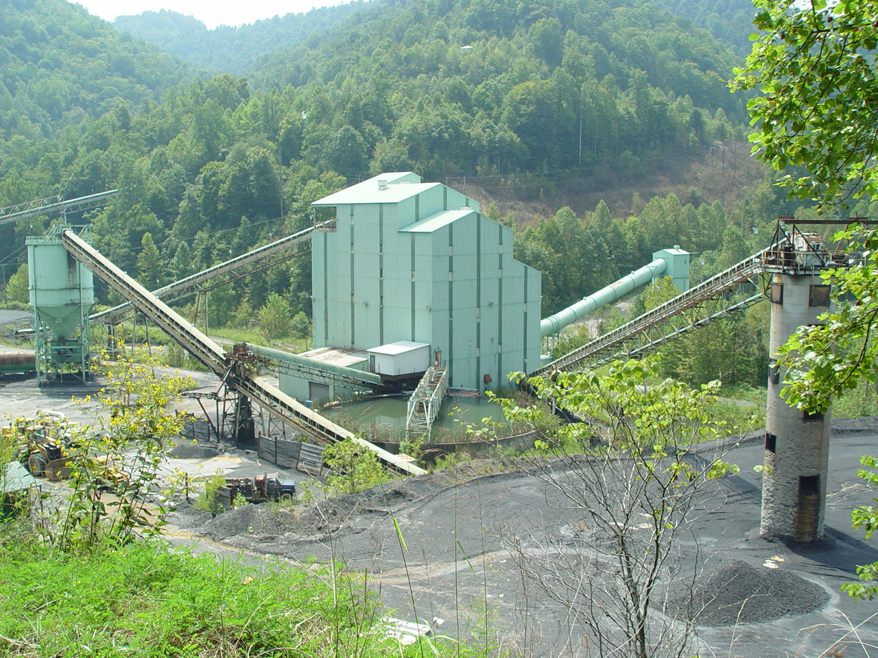 A coal "washer" located in Clay County in Eastern Kentucky. No longer in use.